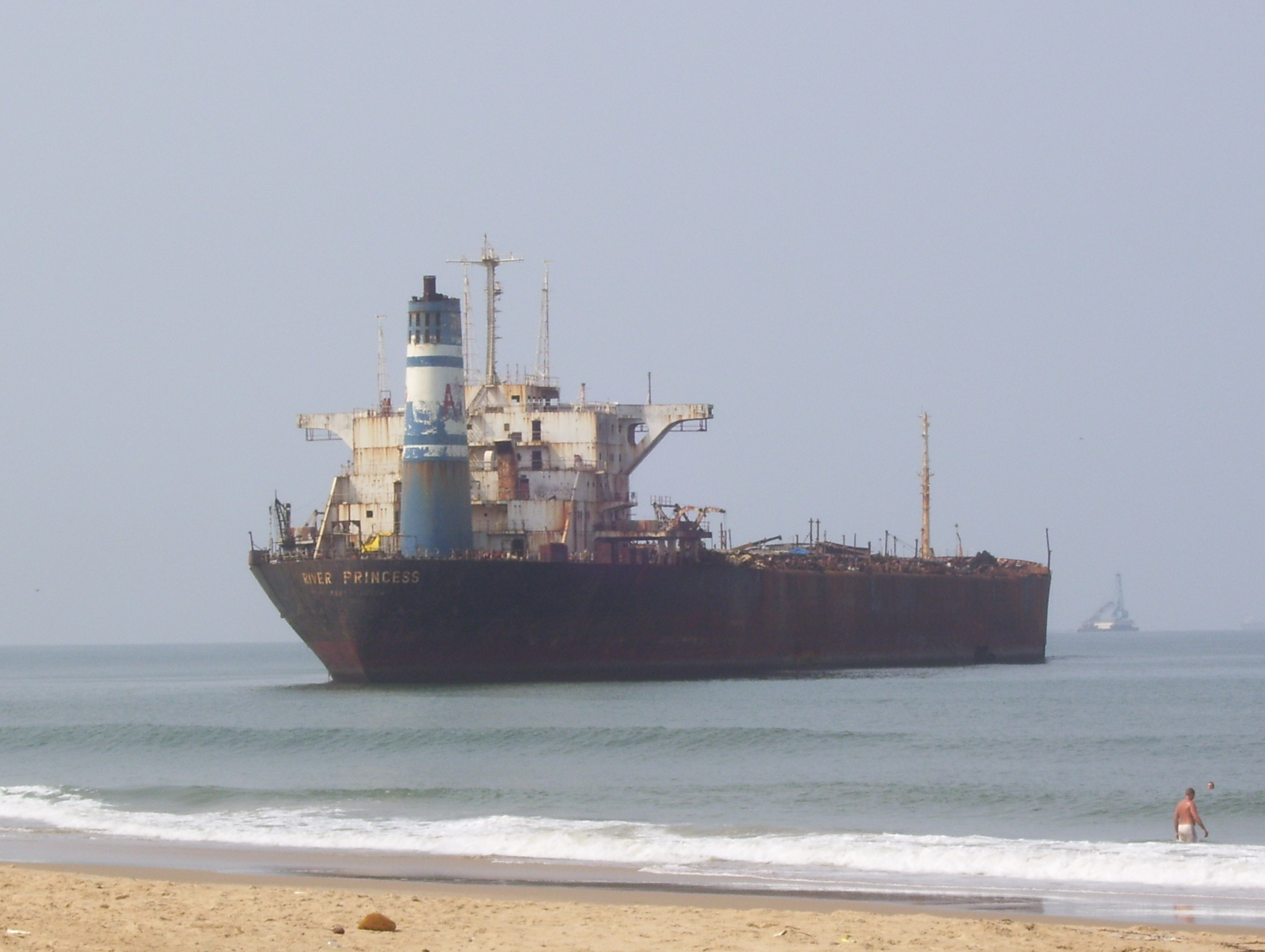 The River Princess, a 240 meter long ore-carrier which has run aground in the year 2000 on Candolim Beach. It has destroyed the ecology around the area, but sadly the Goa Government has not done anything to move it.